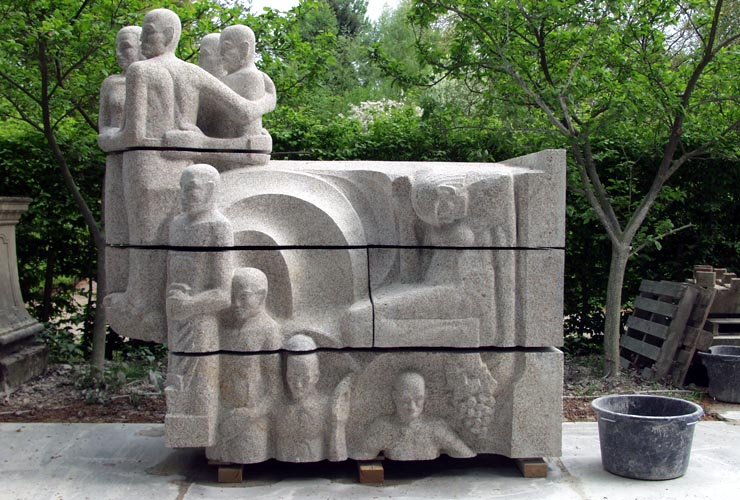 A granite copy of part of Hildo Krops "Human Energy', in the restoration sculptor's workshop